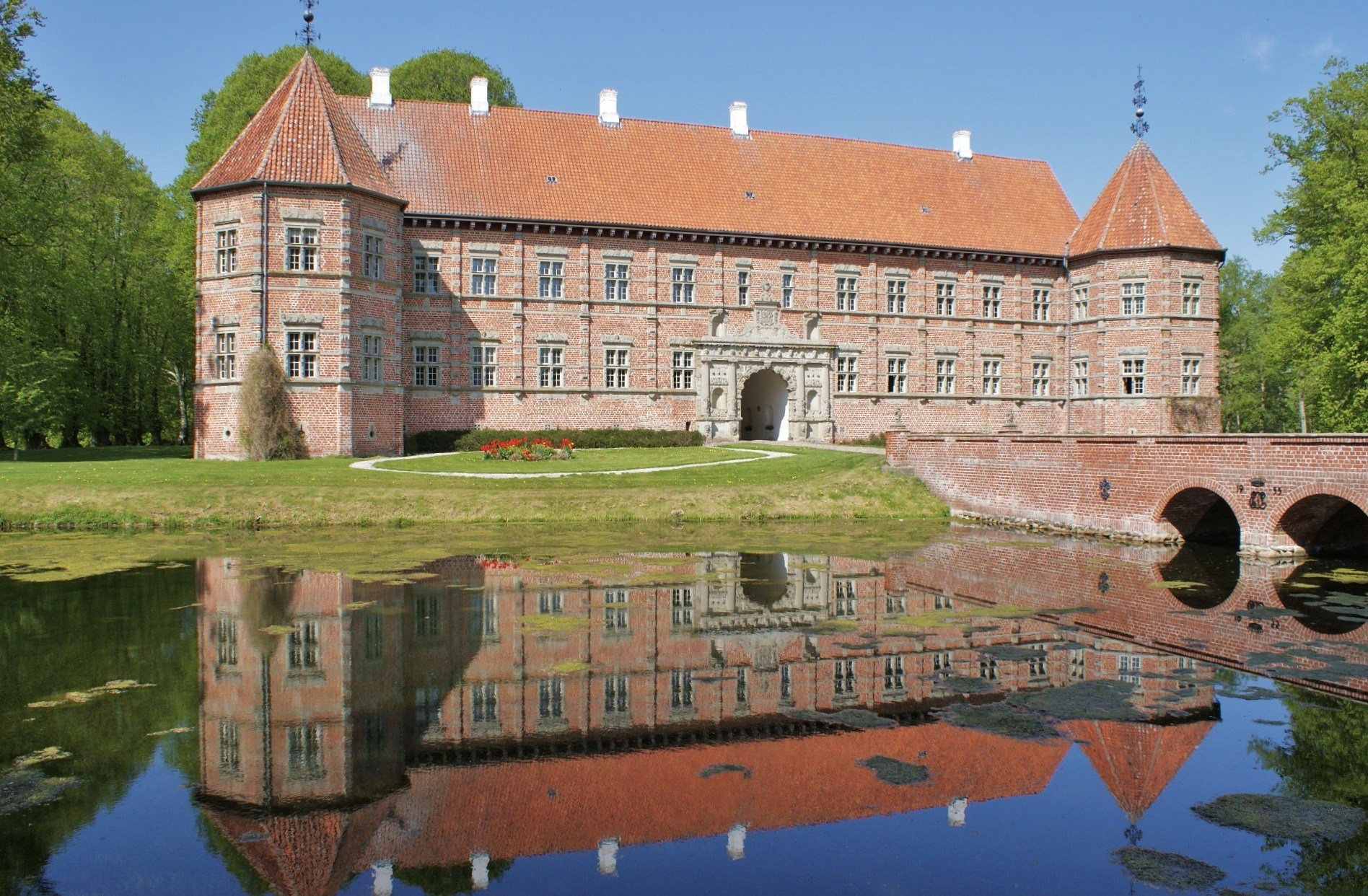 Eastwing of Voergaard Castle, Denmark